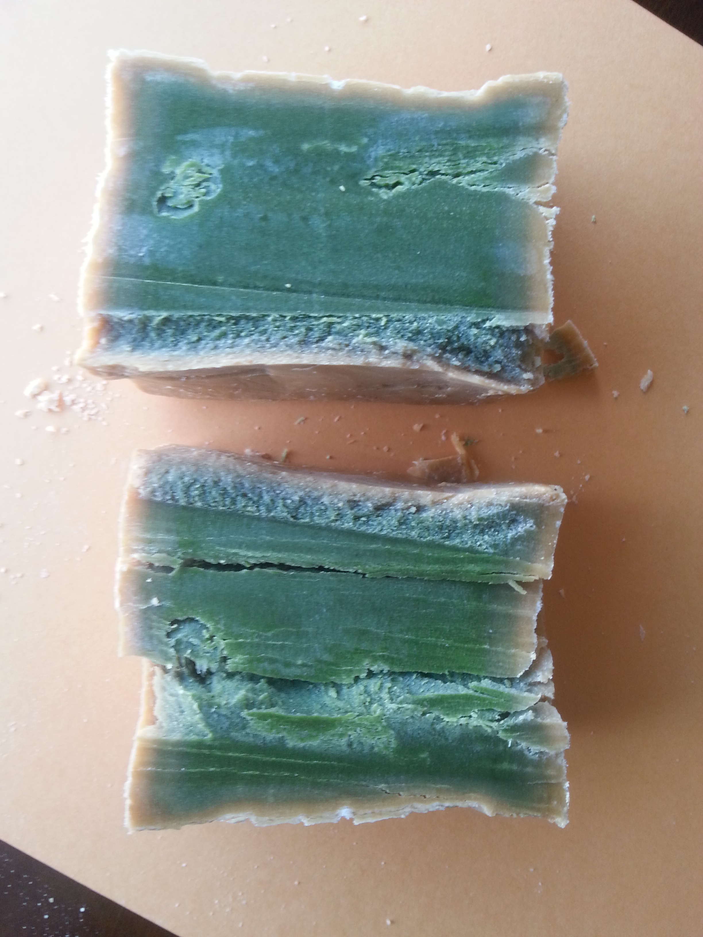 Corte longitudinal de un Jabón de Alepo